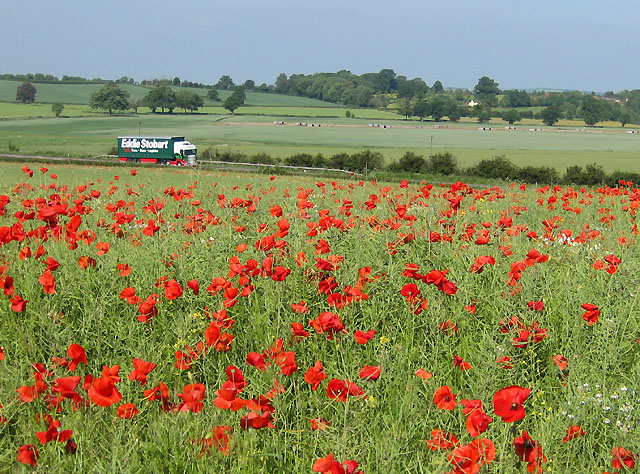 Eddie's on his way The M50 motorway passes this field which only a few weeks ago was a sea of yellow rape flowers, now overtaken by the scarlet poppies. A Stobart truck heads East towards the M5.